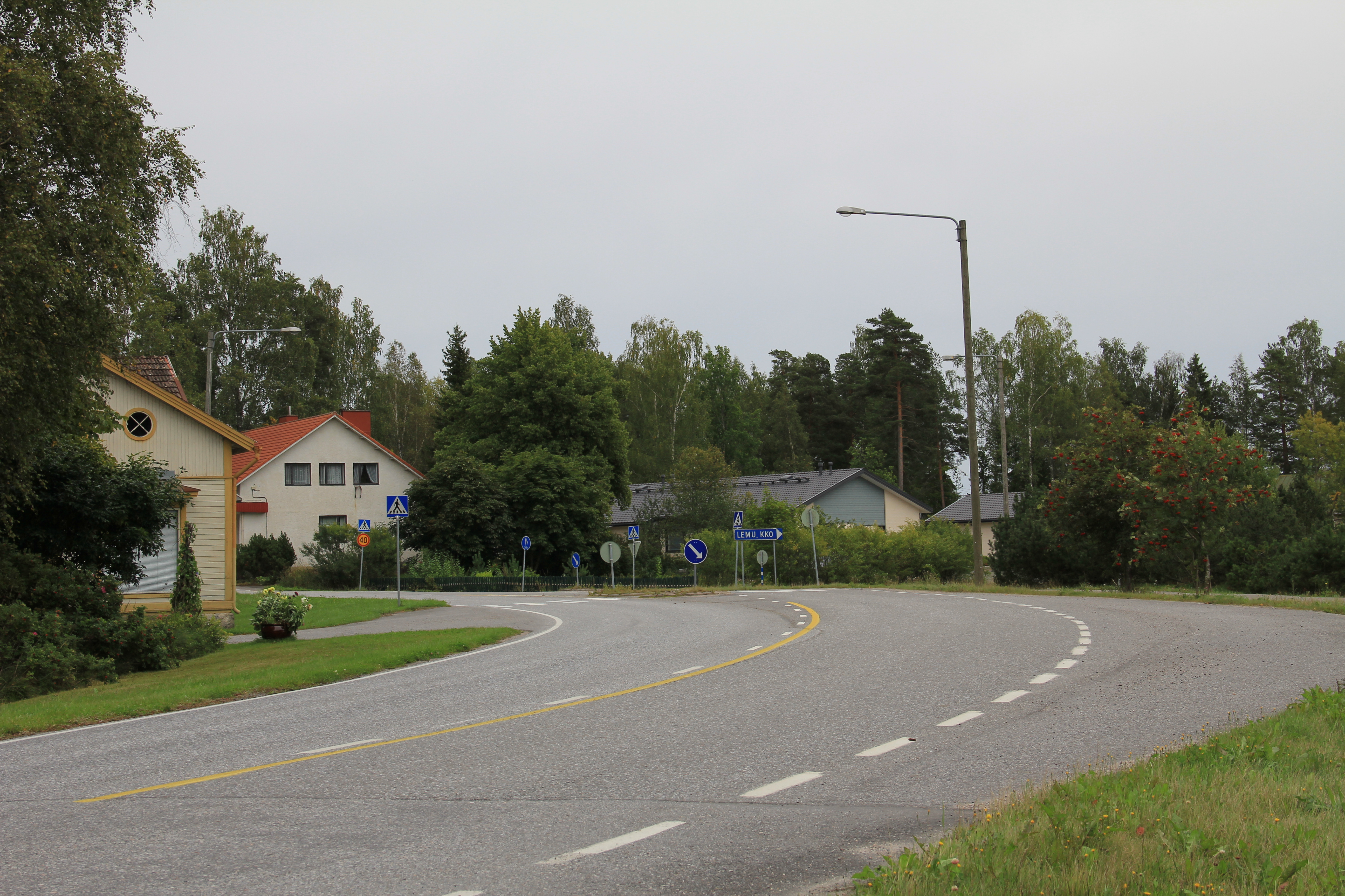 Connecting road 1900, Lemu, Masku, Finland. In Lemu centre, towards southeast.